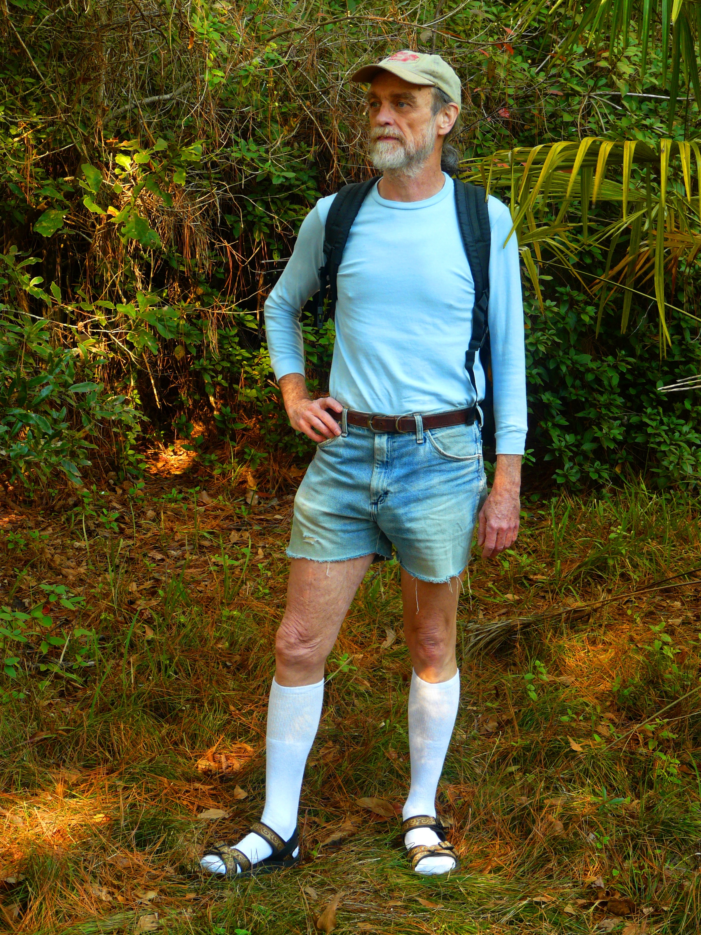 A man is hiking wearing knee socks, sandals, and cut-off shorts.